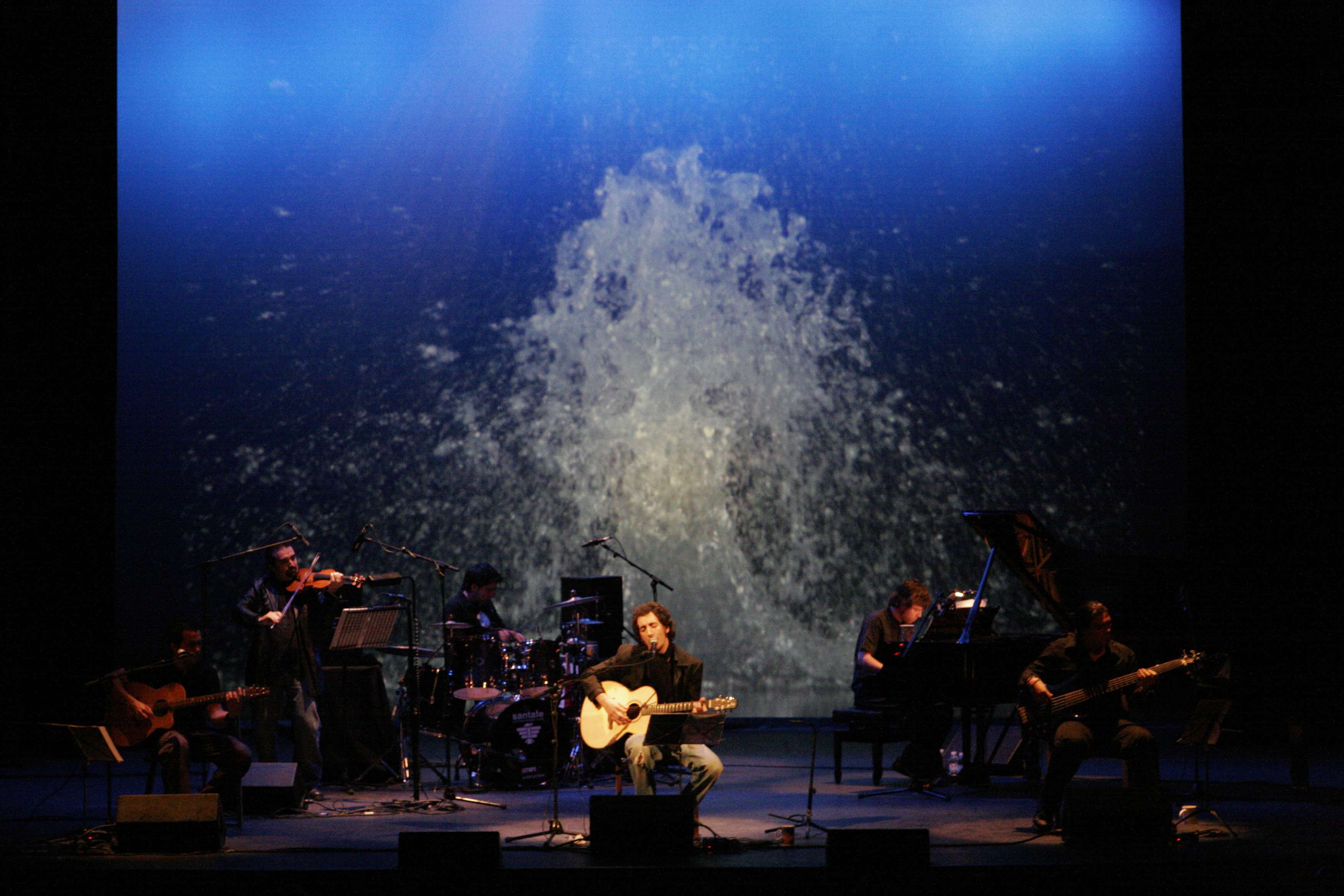 Estirpe en el Gran Teatro de Córdoba.